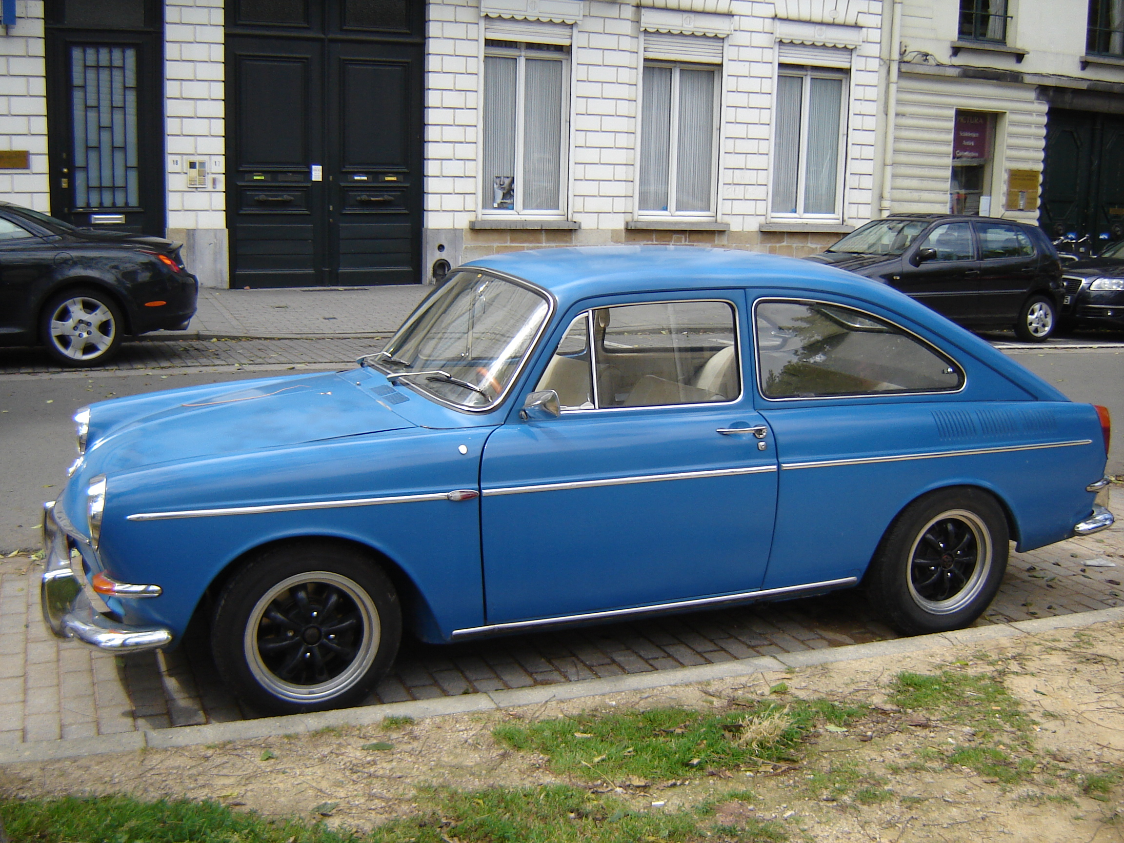 Volkswagen 1600 TL (picture taken in Gent, Belgium)